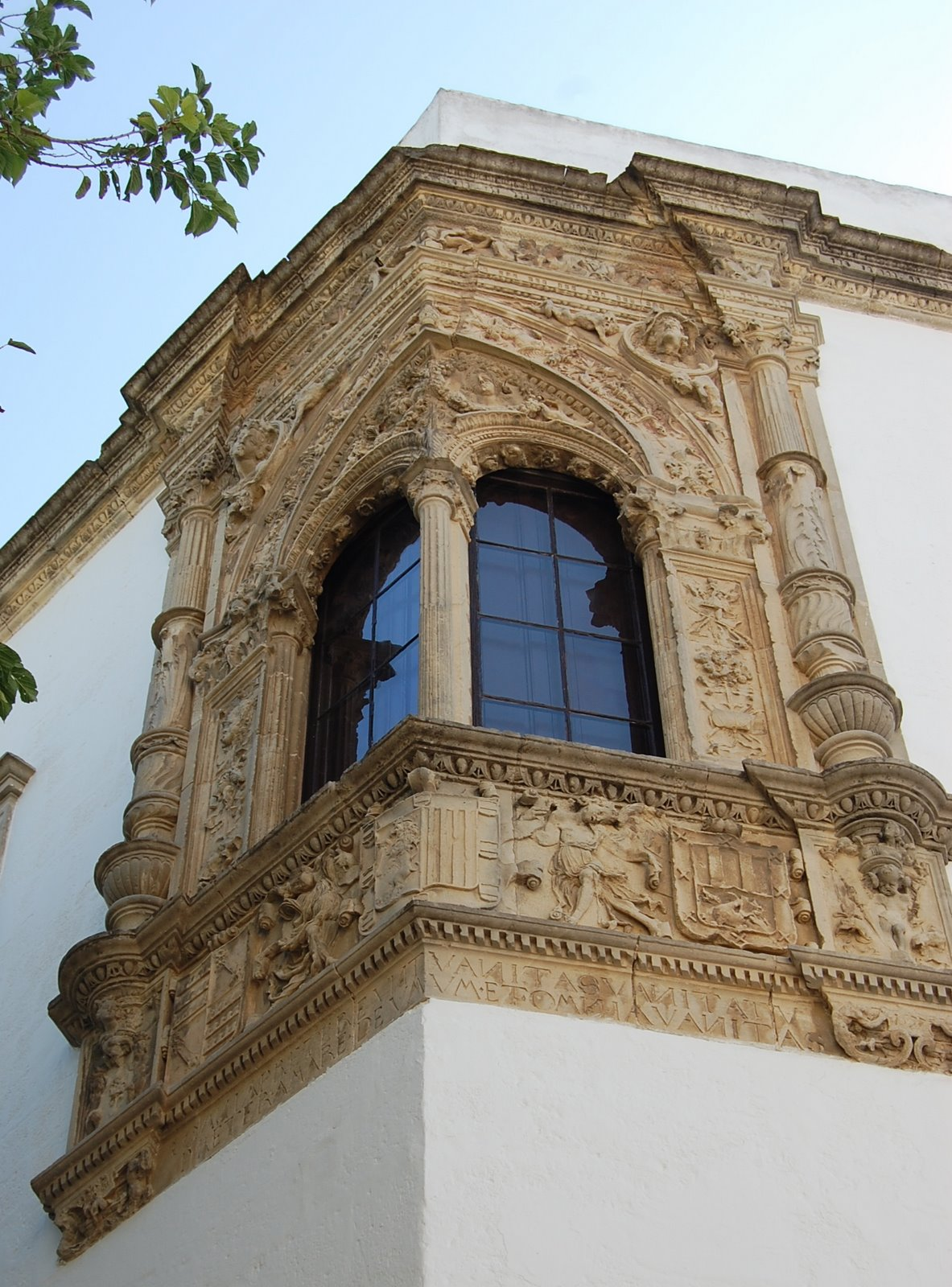 Palacio Ponce de León en Jerez de la Frontera, provincia de Cádiz (España) (Marqueses del Castillo del Valle de Sidueña)